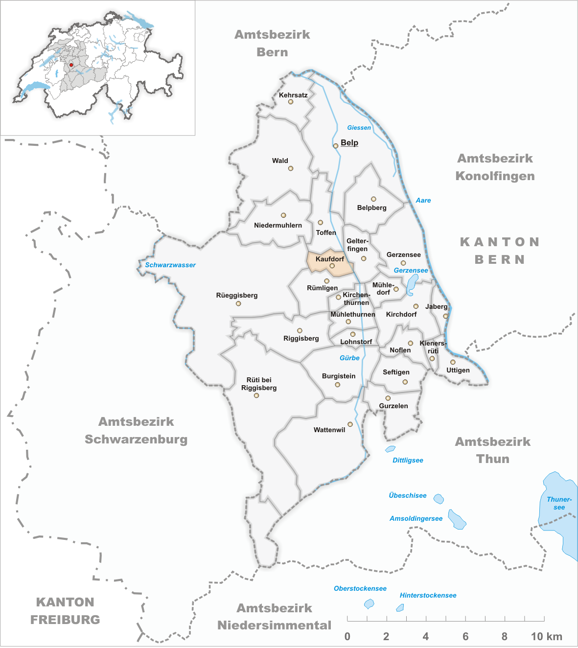 Municipality Kaufdorf